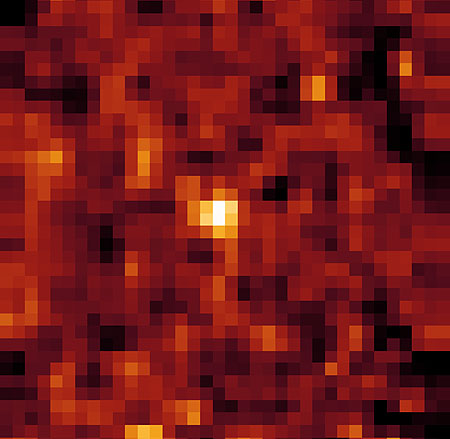 Image of dwarf planet candidate 2002 AW197 taken by the Spitzer Space Telescope on 2004 April 13.